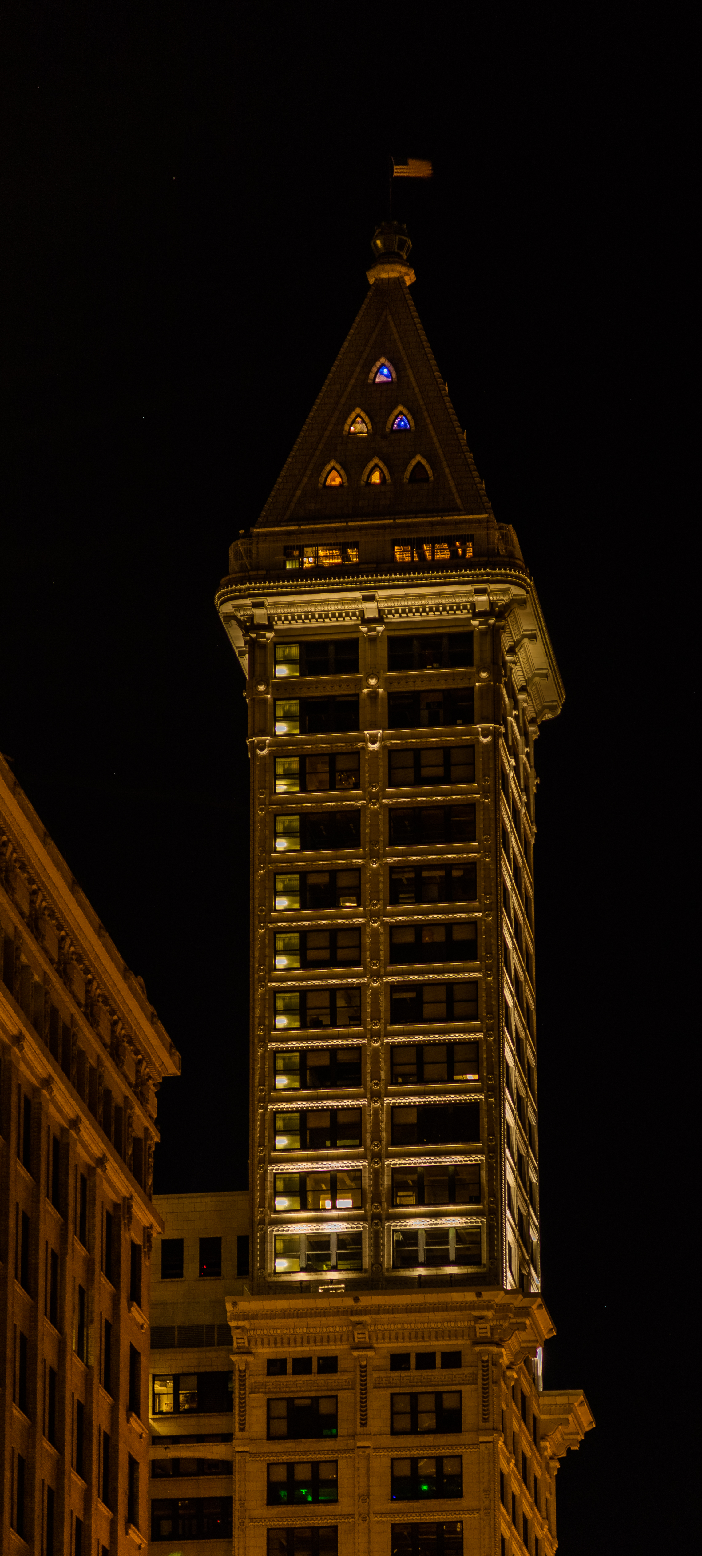 Smith Tower, Seattle, Washington, USA